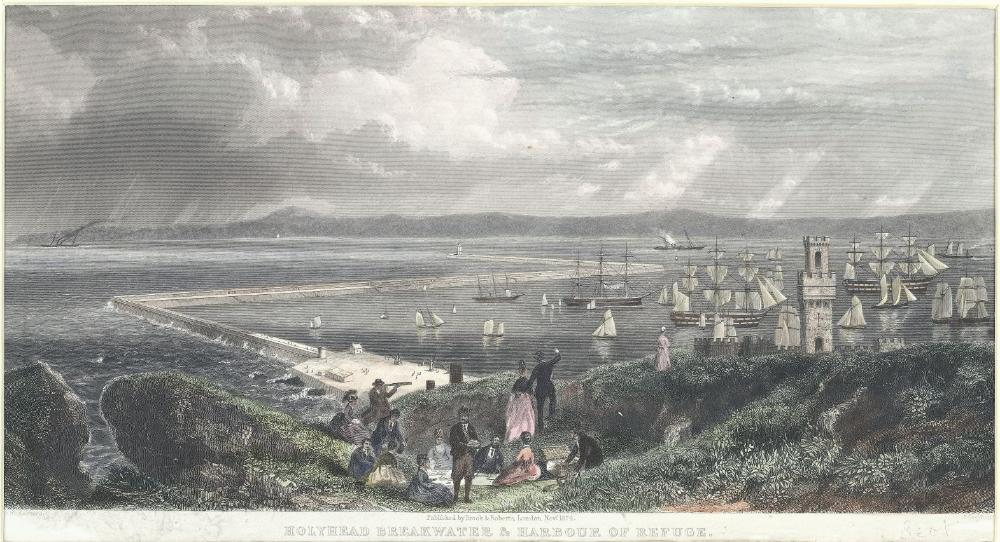 Holyhead breakwater & harbour of refuge